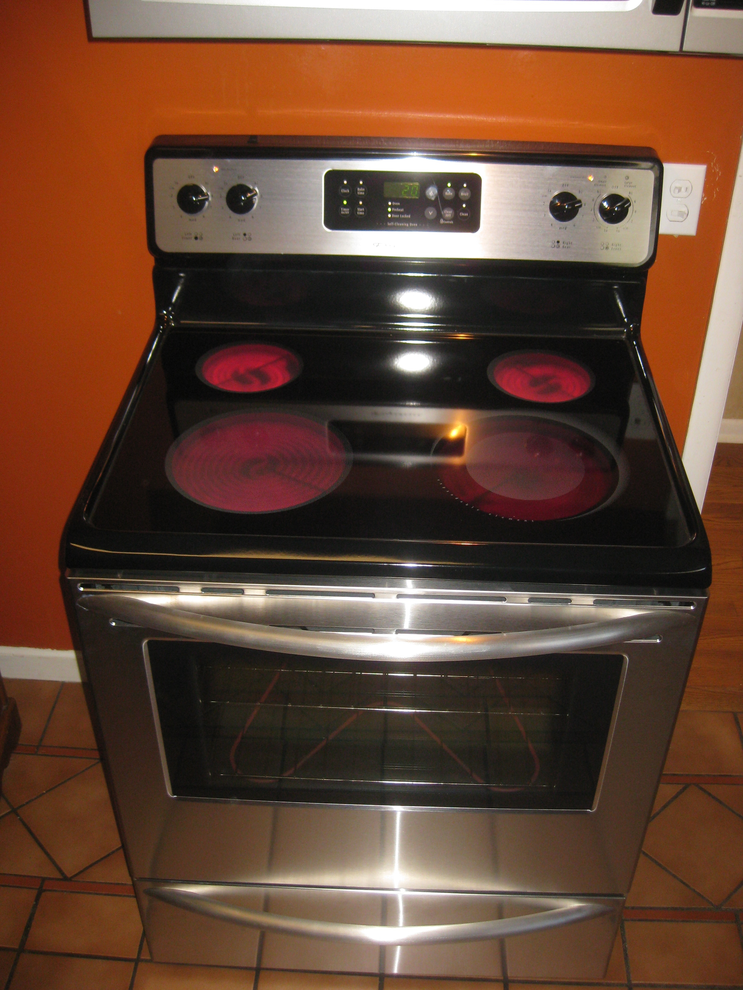 An electric stove with embedded heating elements